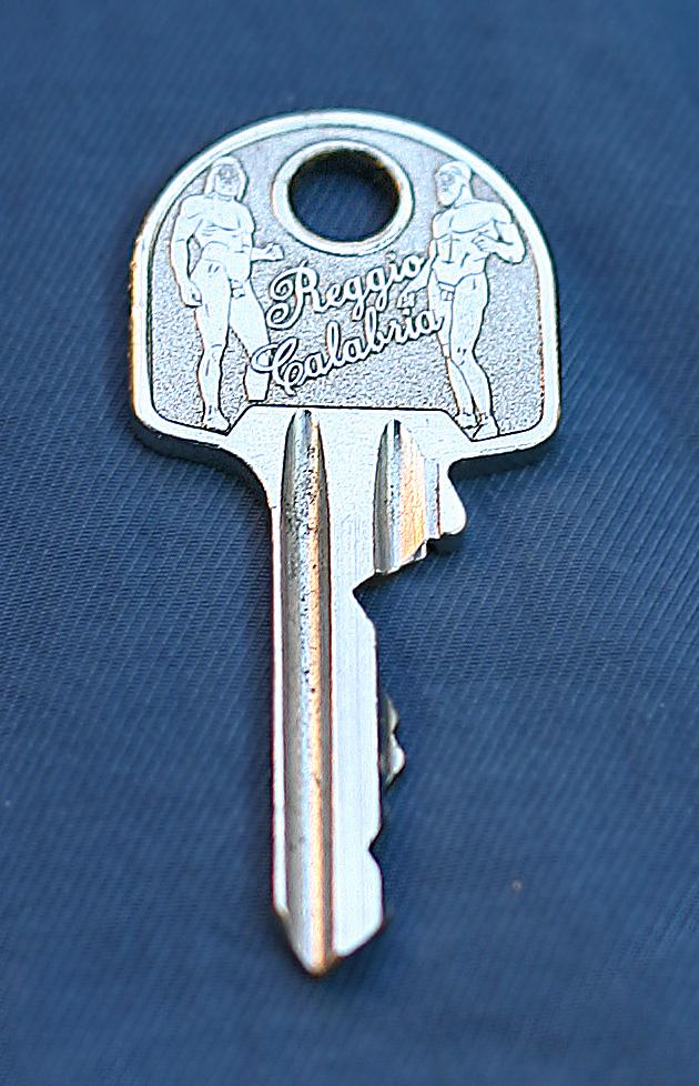 Reggio Calabria, Italy - Riace bronzes key